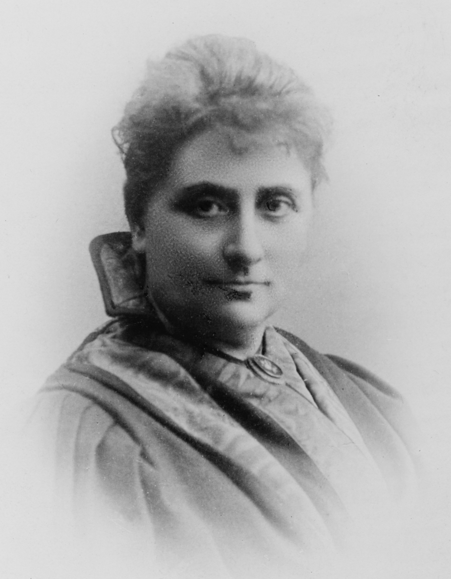 Gina Krog, Norwegian feminist, head-and-shoulders portrait, facing front / L. Forbech.